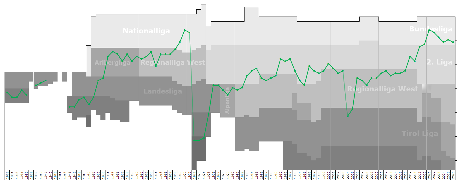 Chart of end-season table positions of Wattens in the Austrian football league system. Data source: RSSSF, , regiowiki.at, tfv.at, wikipedia